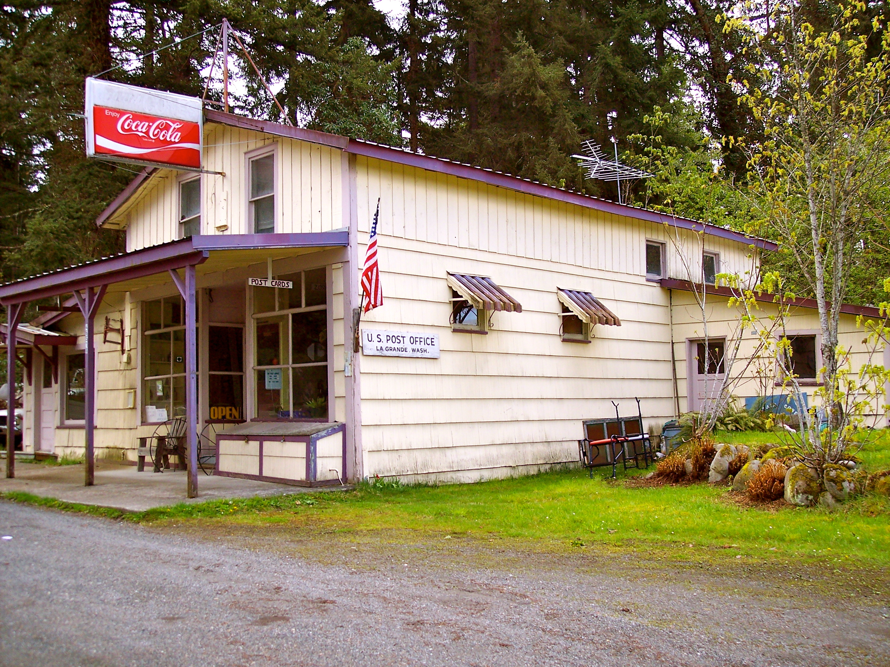 US Post Office in La Grande, WA - 8 May, 2009